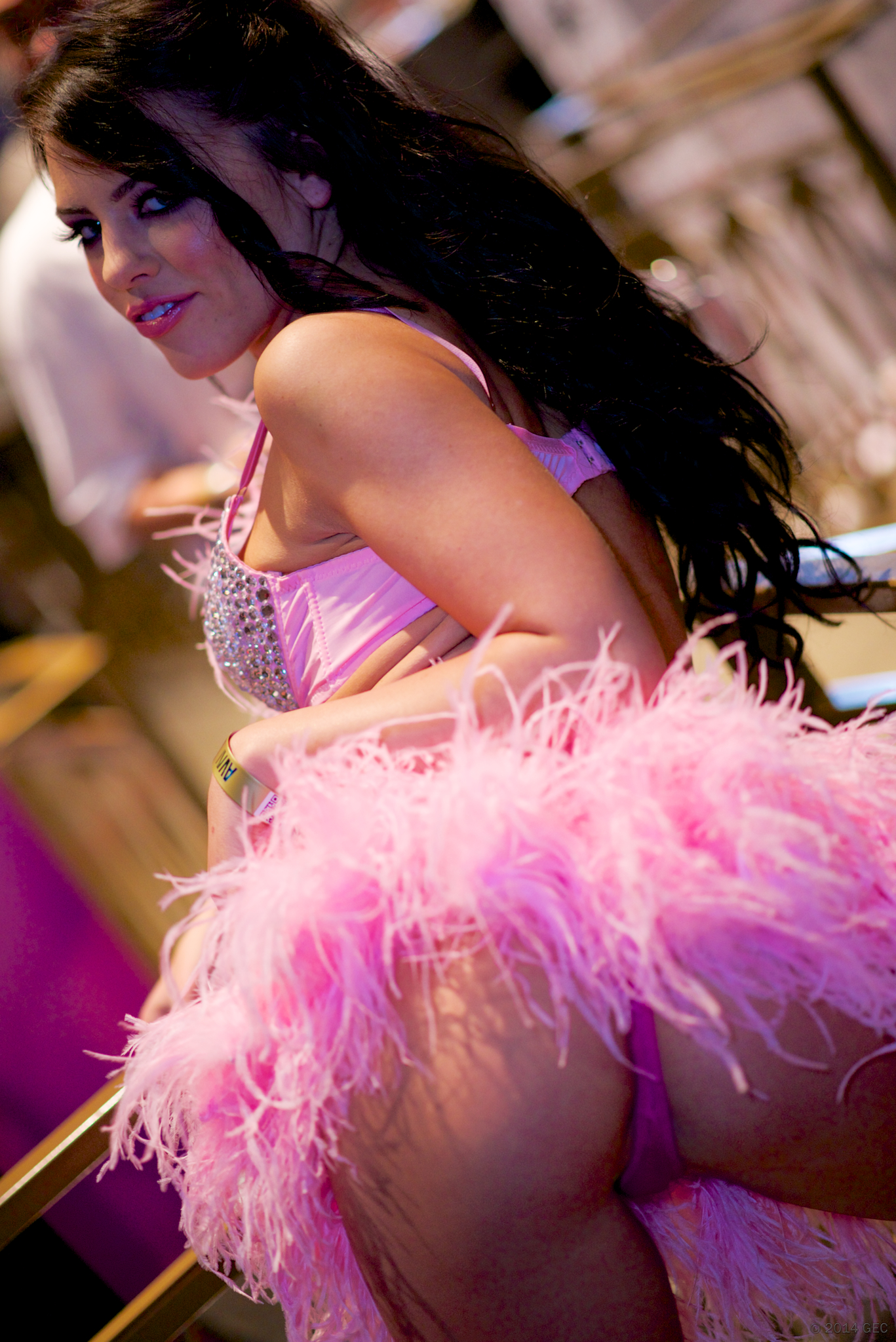 2014 AVN Adult Entertainment Expo AEE at Hard Rock Hotel - Las Vegas. 2014 © GEC.